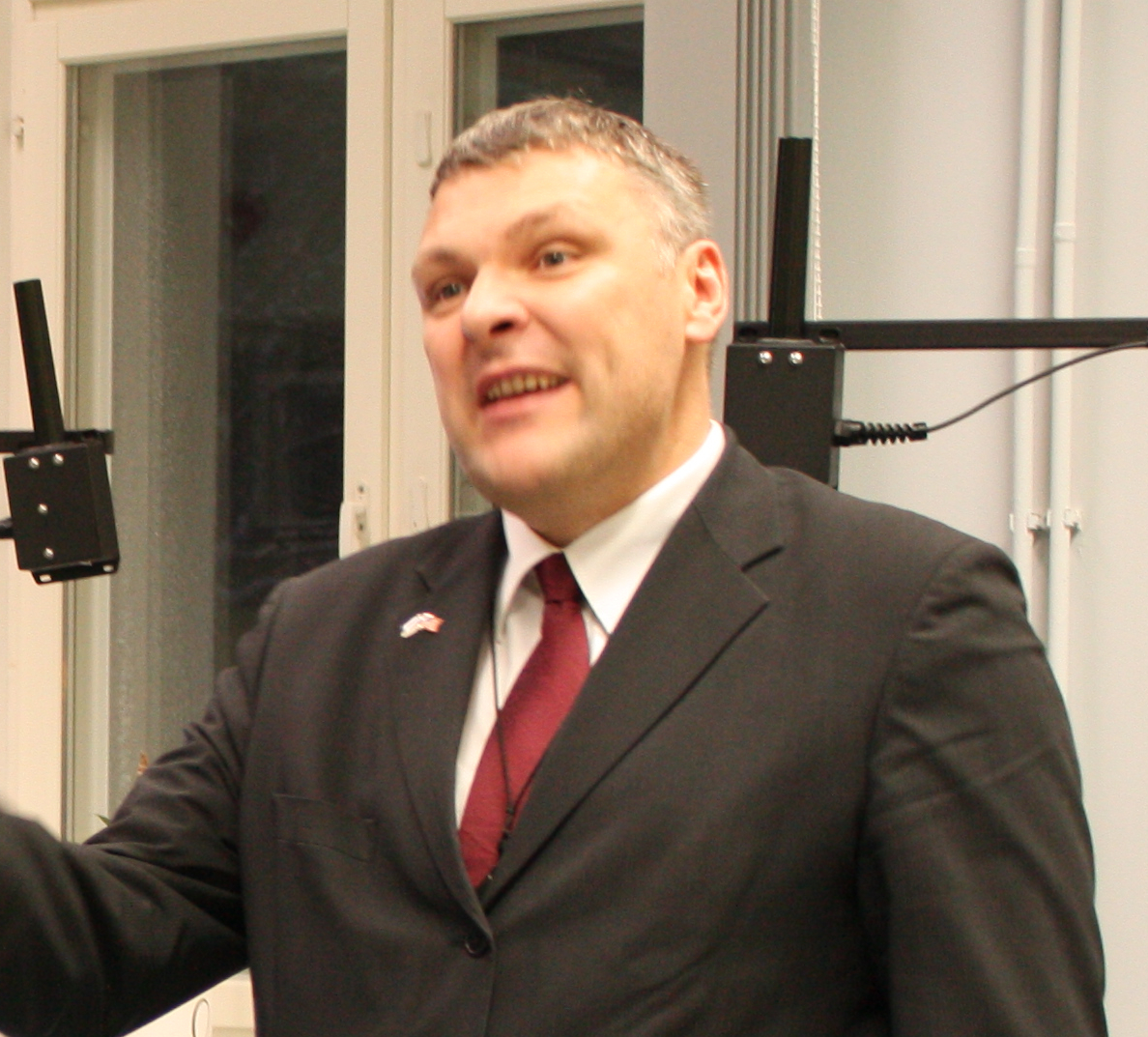 Ambassador Polt at Demining Equipment Handover, December 9, 2010" Cropped to Estonian Interior Minister Marko Pomerants